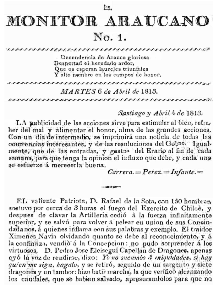 First issue of "El Monitor Araucano".